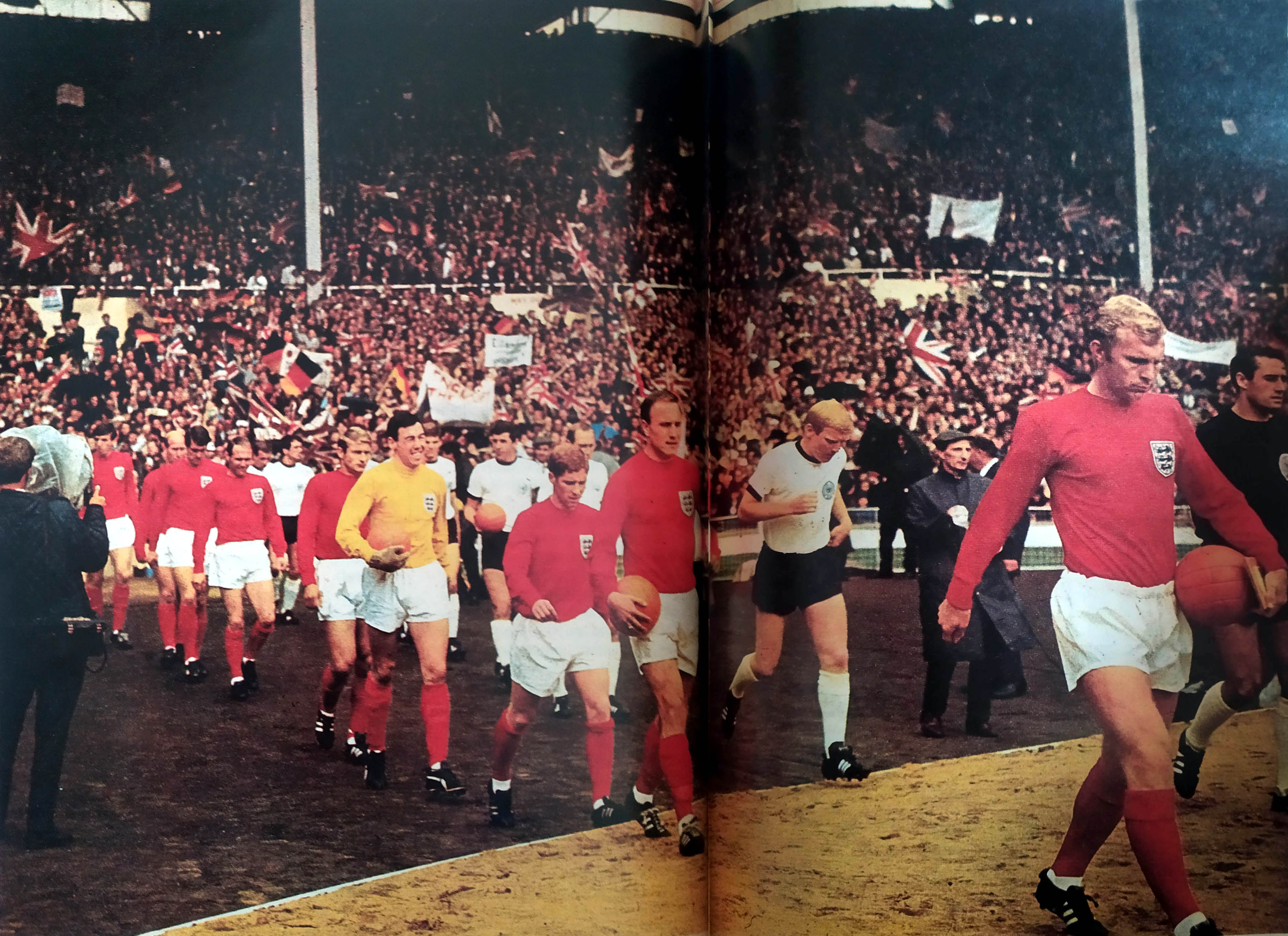 England (in red) and Germany entering to the Wembley field to play the WC final. Leading the English team, captain Bobby Moore.